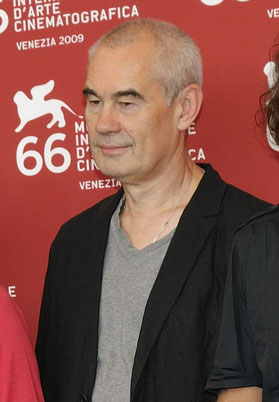 Jury of 2009 Venice Film Festival. Sergei Vladimirovic Bodrov (Russian director).